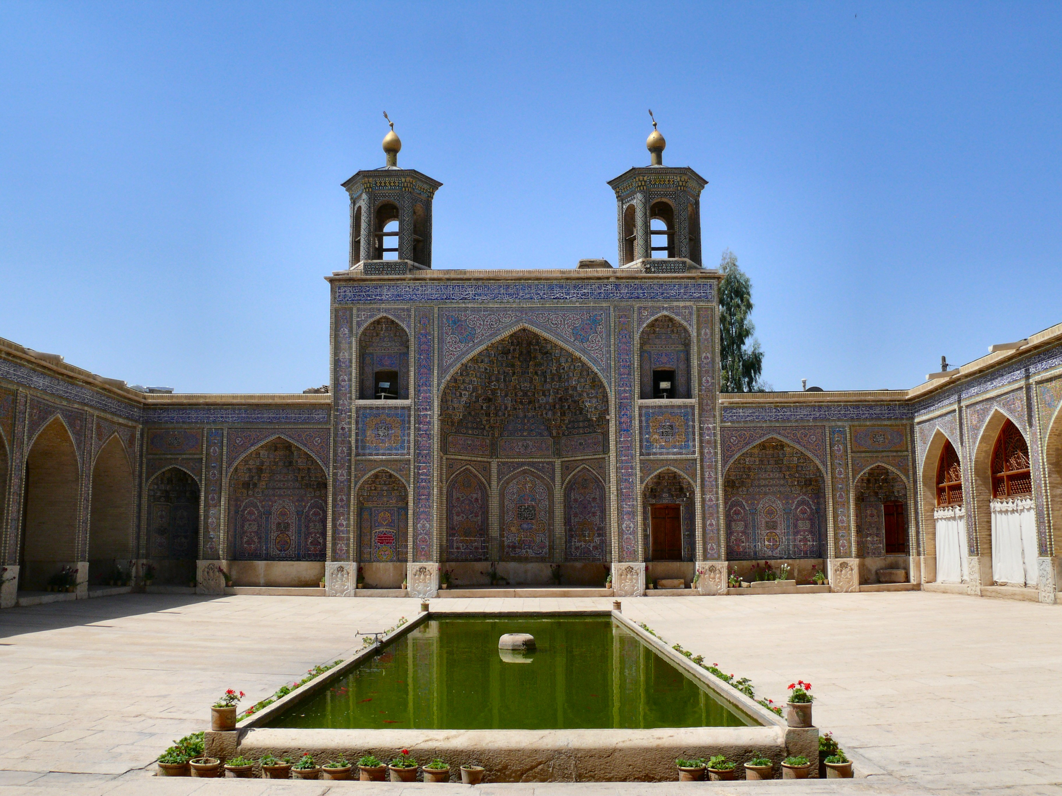 Western portico and courtyard of the Nasr ol Molk mosque at Shiraz, fars province, Iran, April 2008